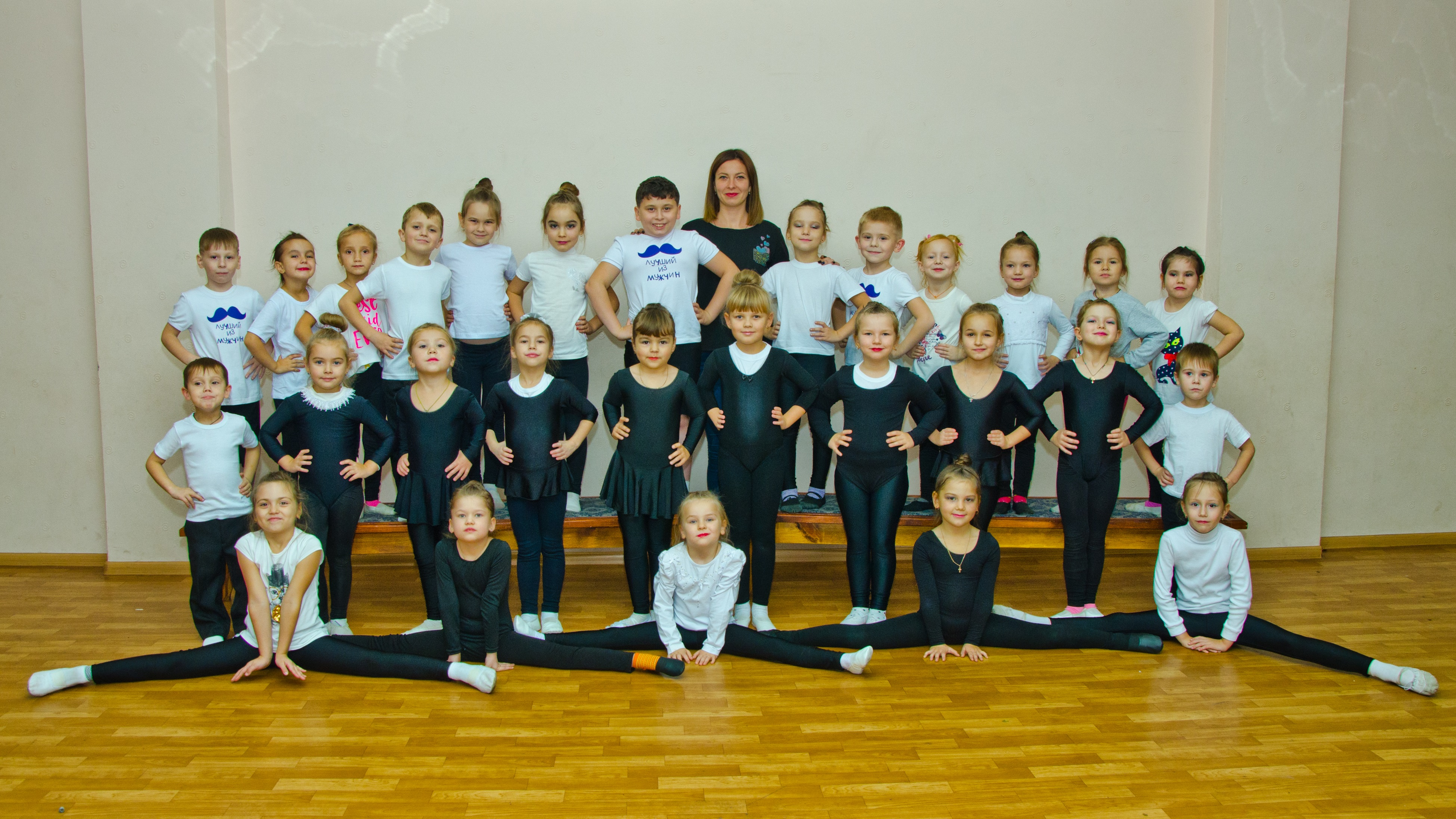 It is a dance ensemble with 42 years of history and more than 80 artists in primary, junior and preparatory groups. It wins many international festivals